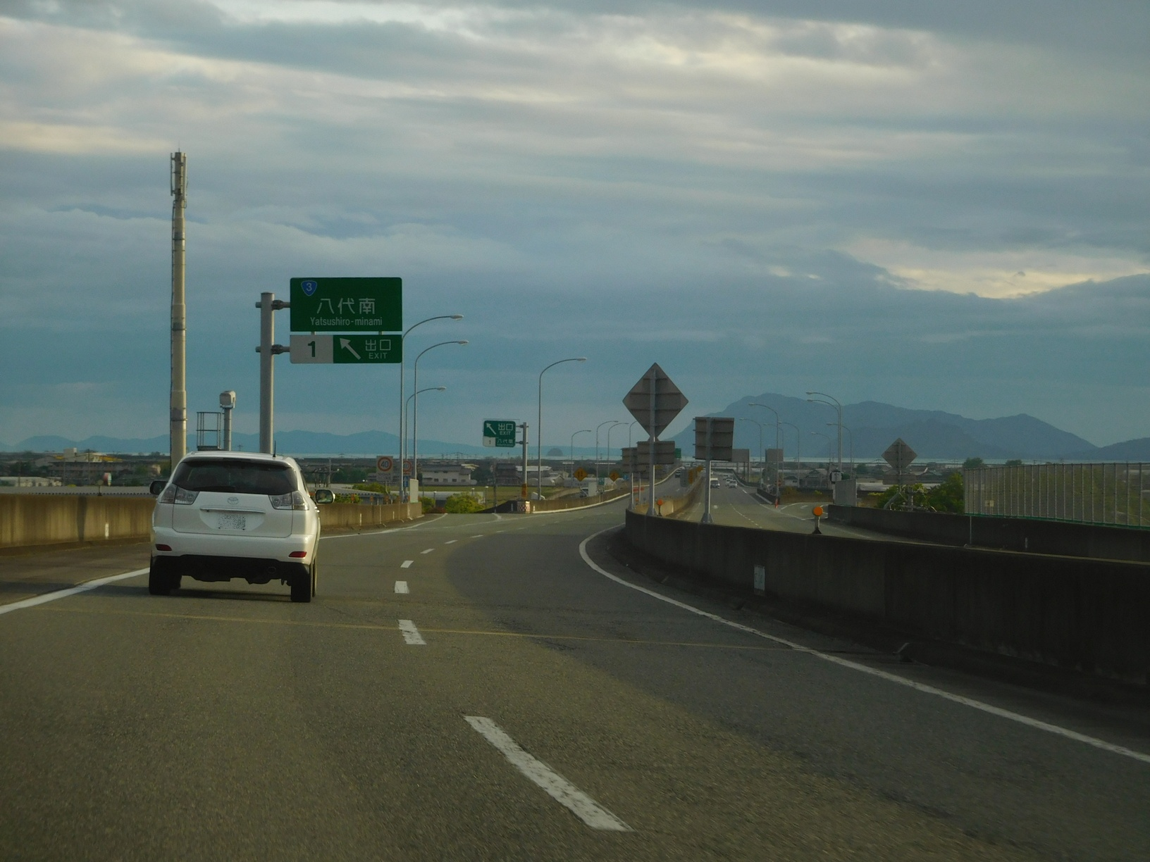 The Minami-Kyushu Expressway at Yatsushiro City, Kumamoto Prefecture, Japan.